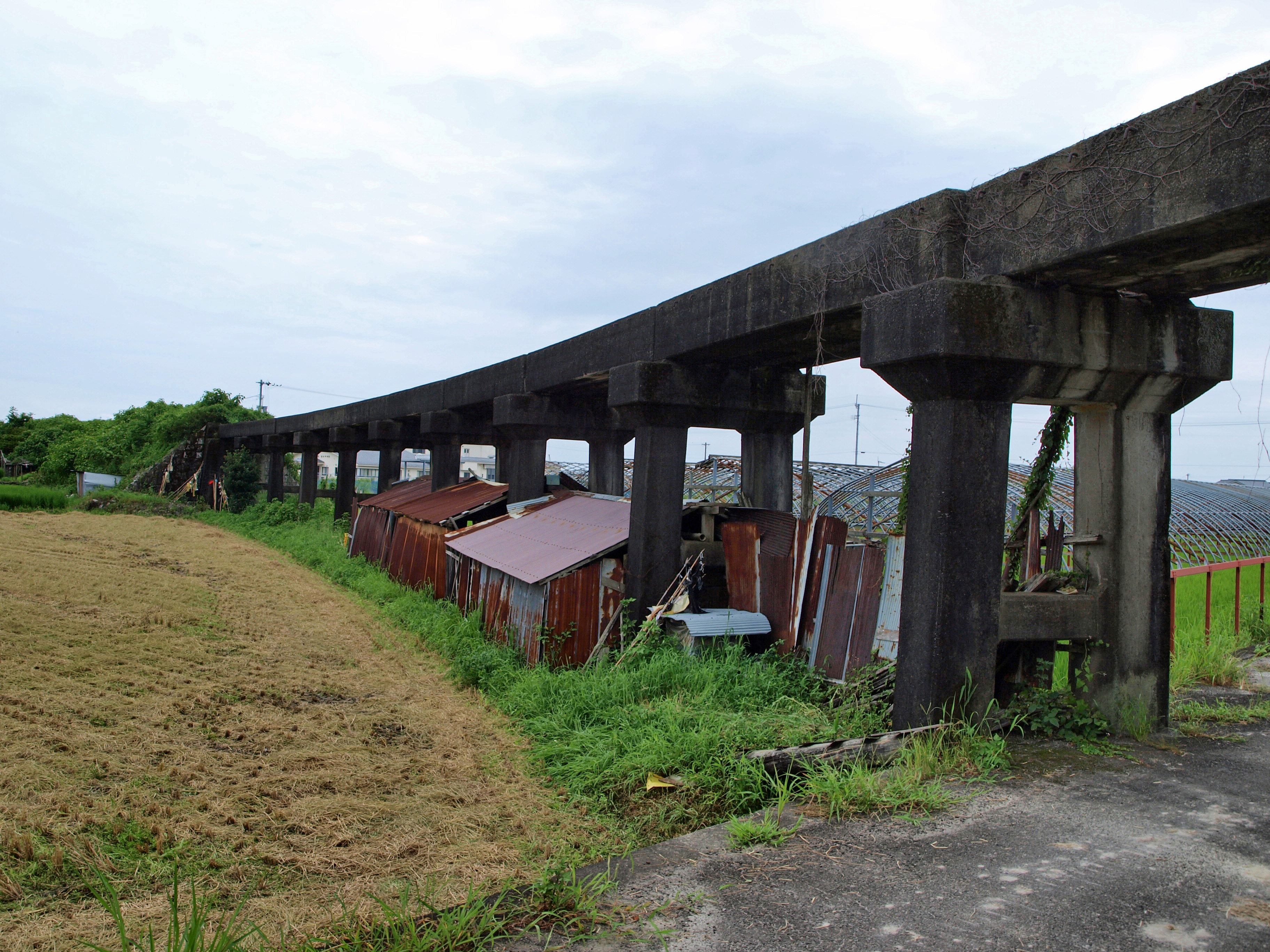 A viaduct near Nahari river, Yanase forest railway.